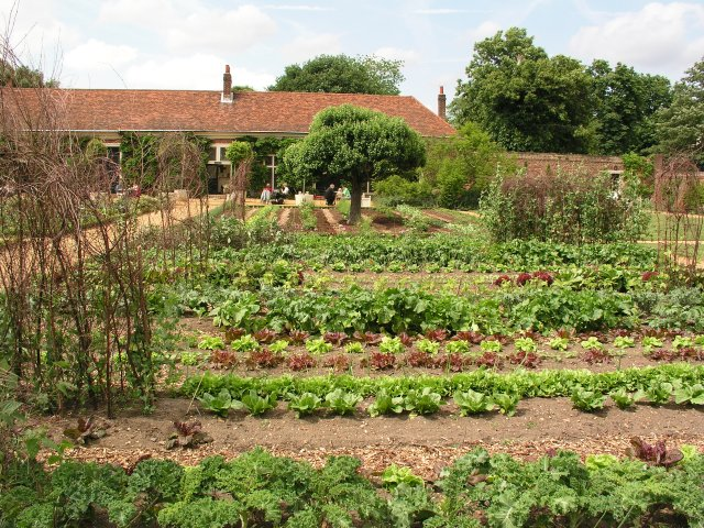 Vegetable garden at Ham House Estate. In the top left corner of TQ1772.